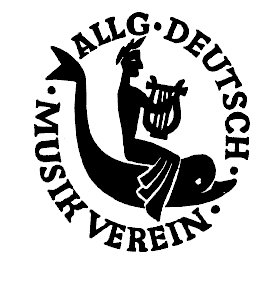 Logo of the Allgemeiner Deutscher Musikverein